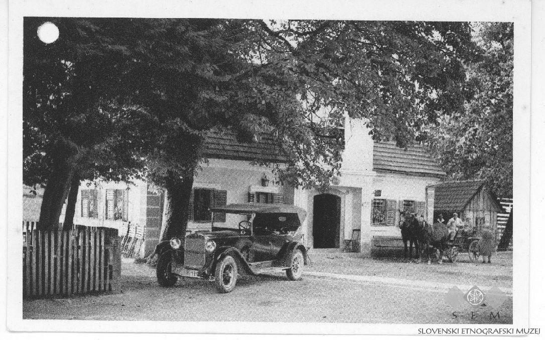 Postcard of Dolenje Kronovo